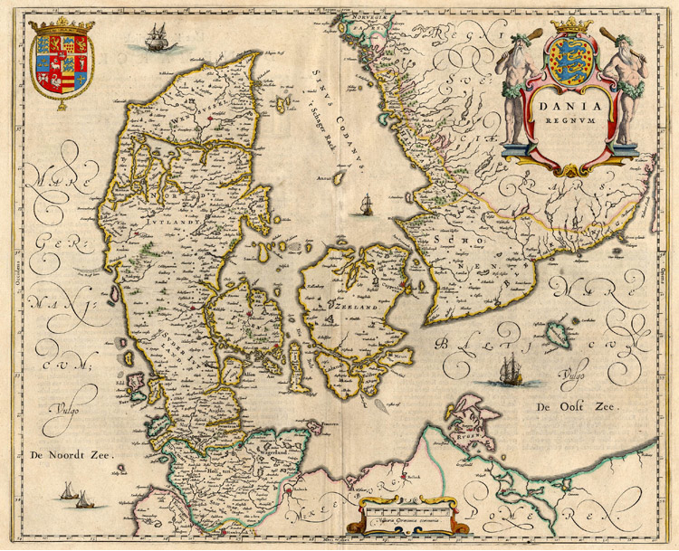 Map of Denmark by W. Blaeu, printed 1647-50, original Title "Dania Regnum"